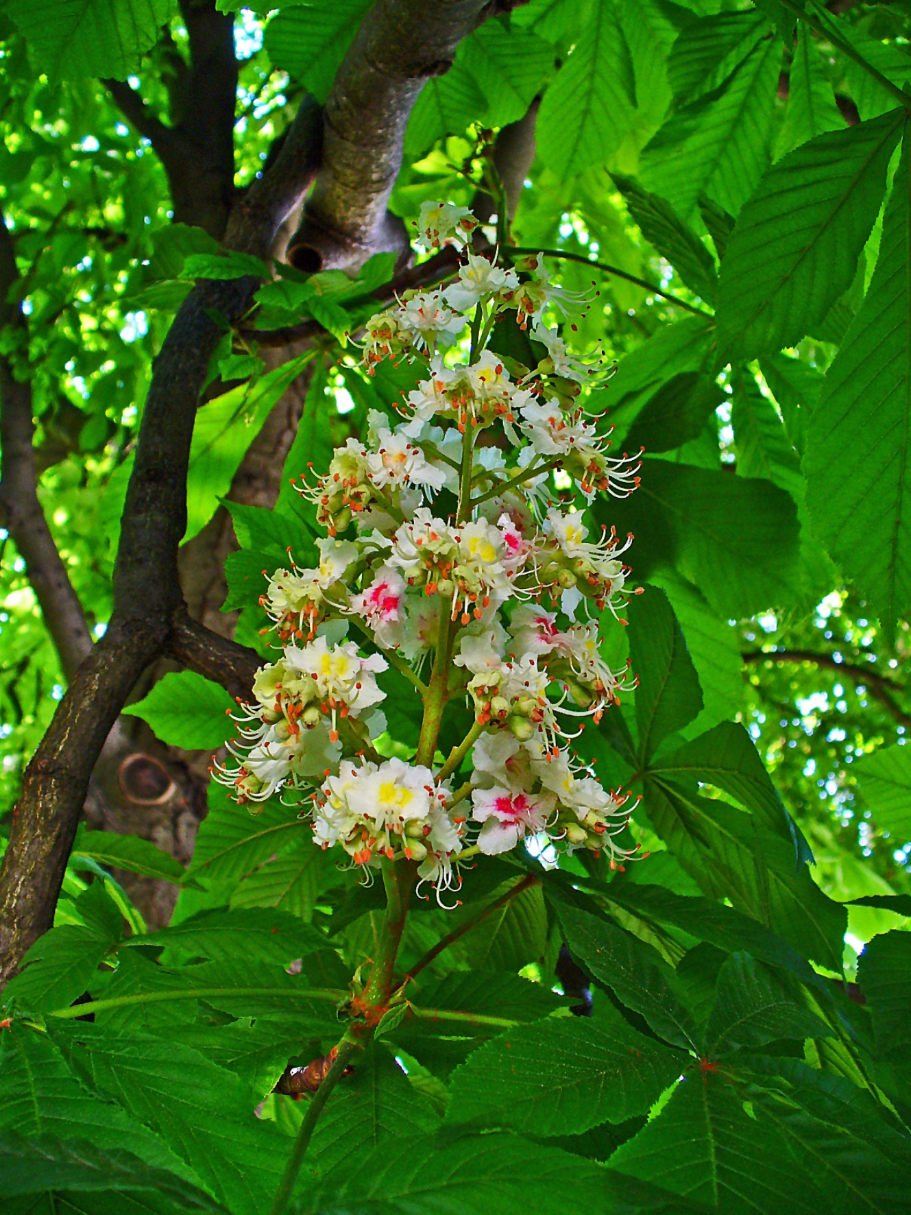 Aesculus hippocastanum, Sapindaceae, Horse-chestnut, Conker Tree, inflorescence; Karlsruhe, Germany. The fresh, peeled seeds are used in homeopathy as remedy: Aesculus (Aesc.)